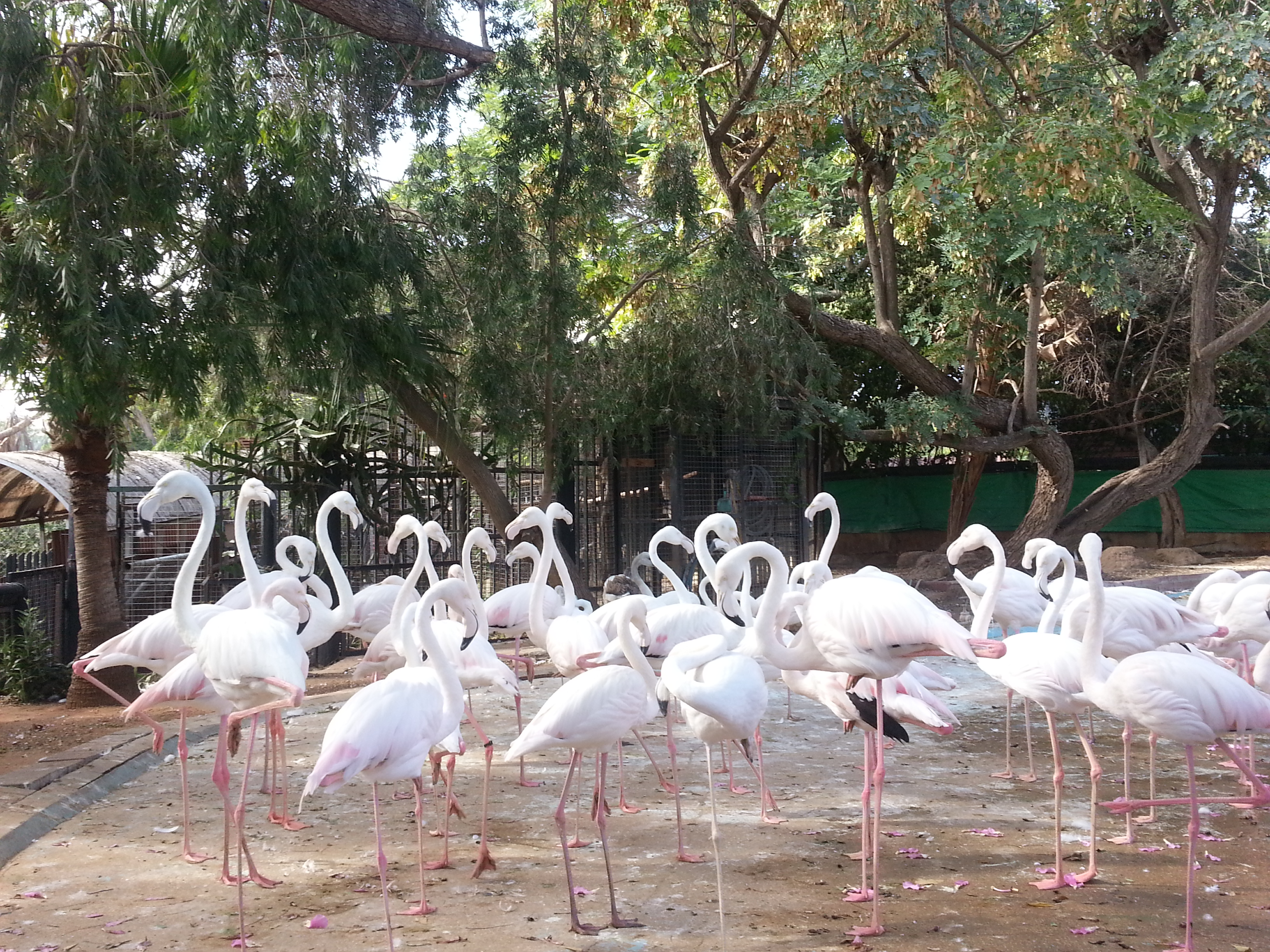 Wildlife and Plants of Israel